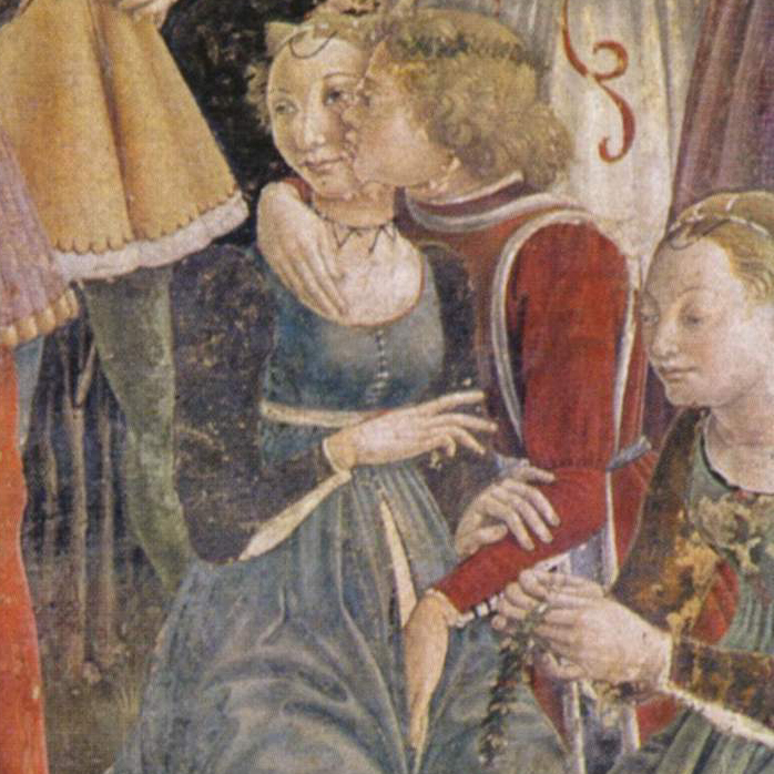 The Triumph of Venus